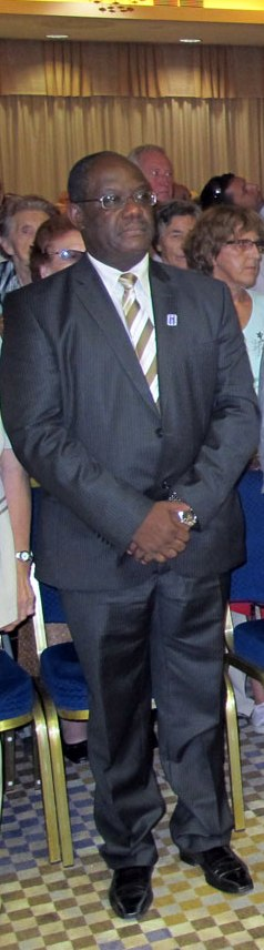 Peter Bossman (born 2 November 1955) Ghanaian-born Slovenian doctor and politician.